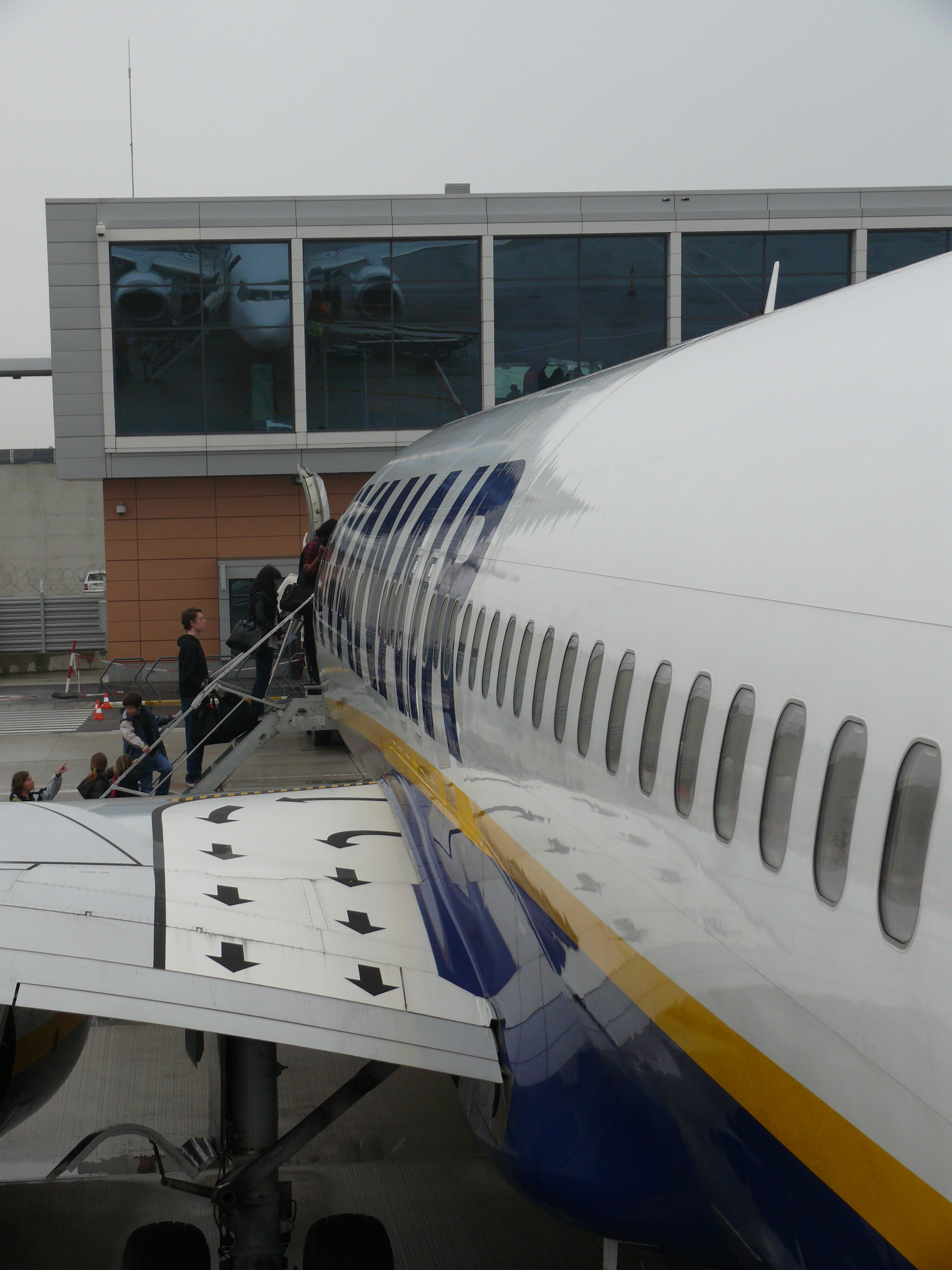 Overwing emergency exit of Ryanair Boeing 737-800 (Next Generation) EI-DPN at Brussels South Charleroi Airport.